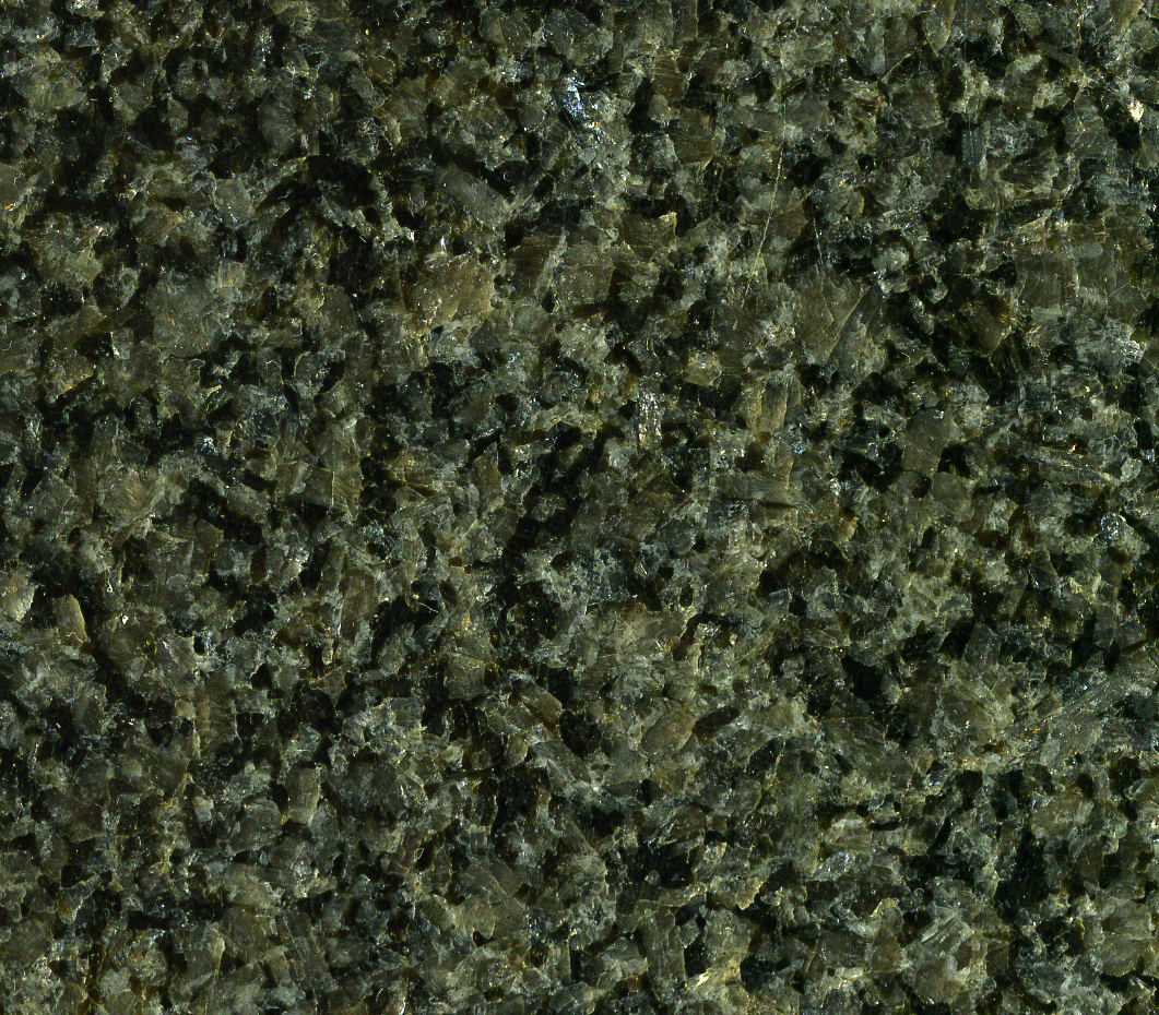 Impala Black Granite - an attractive, 2 billion year old gabbronorite from South Africa. It is composed principally of grayish plagioclase feldspar and black pyroxene. It comes from the famous Bushveld Complex, a world-class example of an LLI (large layered igneous province). LLIs often have economic concentrations of valuable metals, such as platinum and chromium. North America has one economically significant LLI - the Stillwater Complex of Montana. The Bushveld has a thick stratigraphy that is well documented. The gabbronorite sample shown here comes from the upper Main Zone of the Rustenburg Layered Suite. It dates to the mid-Paleoproterozoic (2054-2061 million years). “Impala Black Granite” is quarried north of the town of Rustenburg in northeastern North West Province (= northwest of the city of Johannesburg), South Africa.